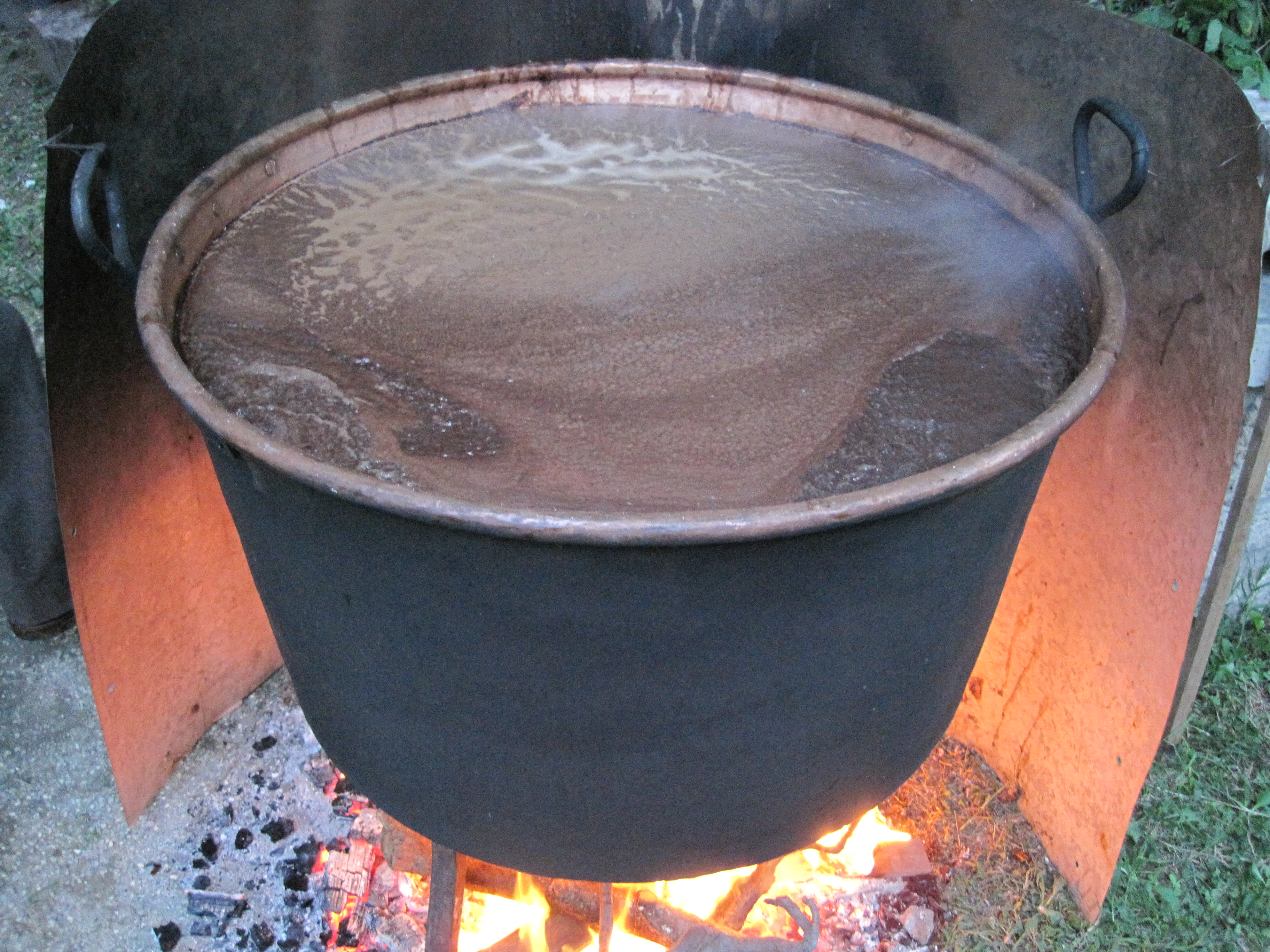 Making Piceno's Vino Cotto: concentrating grape juice with direct flame cooking. In a copper pot handcrafted by copper masters in Force (Ascoli Piceno - Italia)